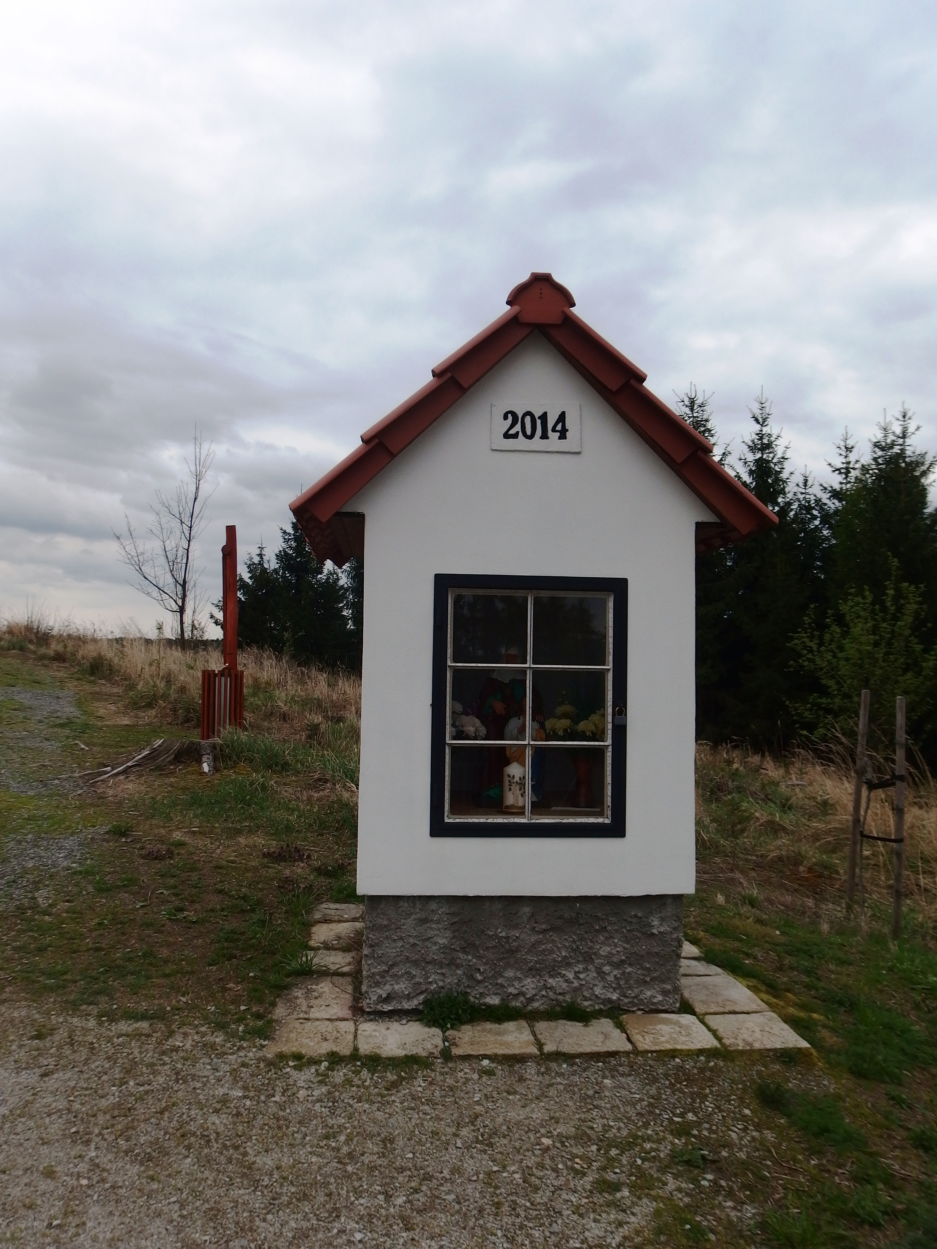 Stonařov, Jihlava District, Czech Republic. Stations of the Cross.